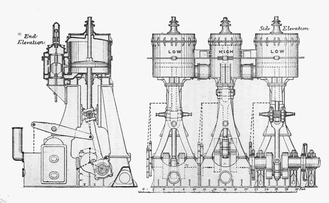 Marine triple-expansion compound engine (Steam and the Steam Engine, Evers).jpg